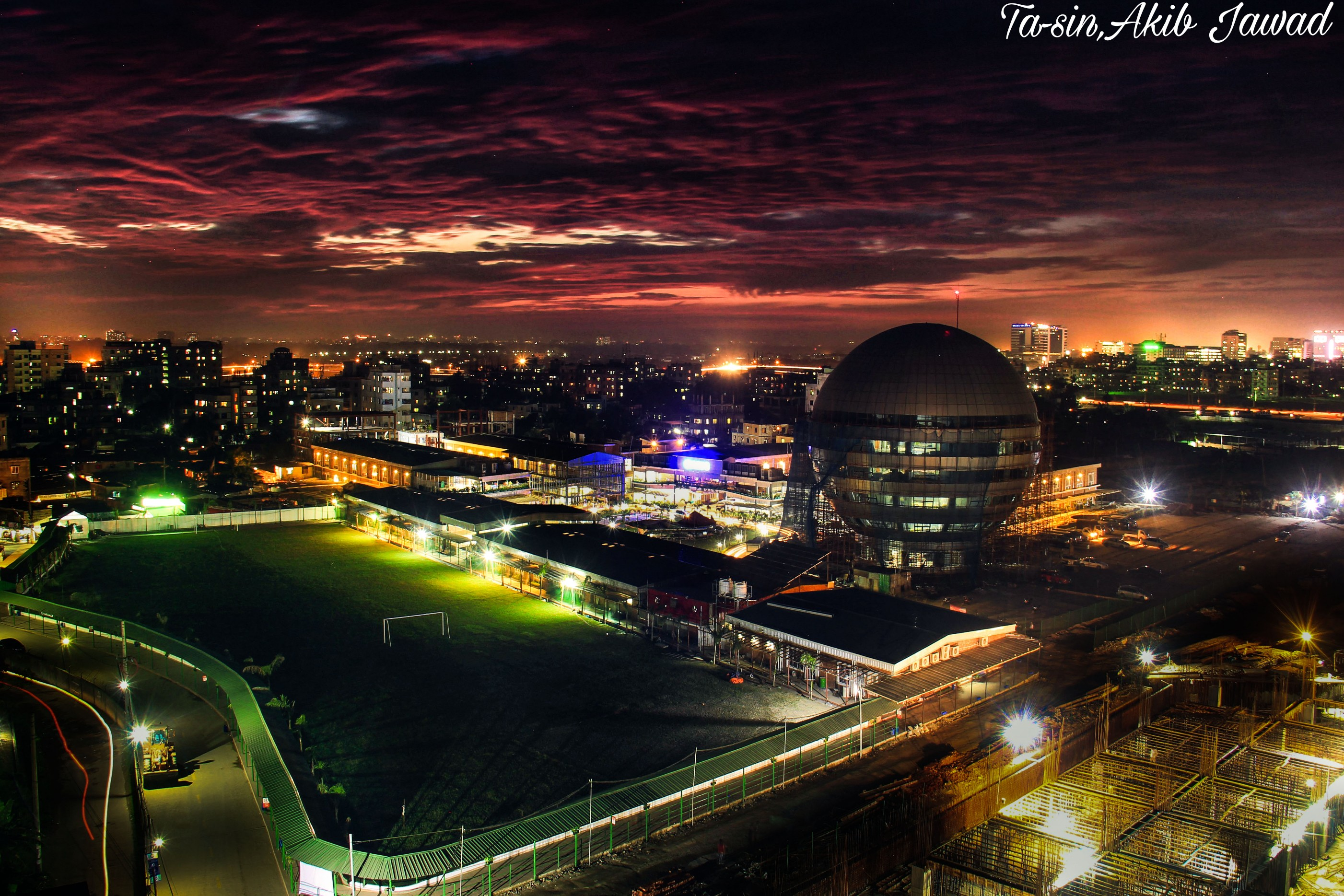 Nightview of AIUB permanent campus